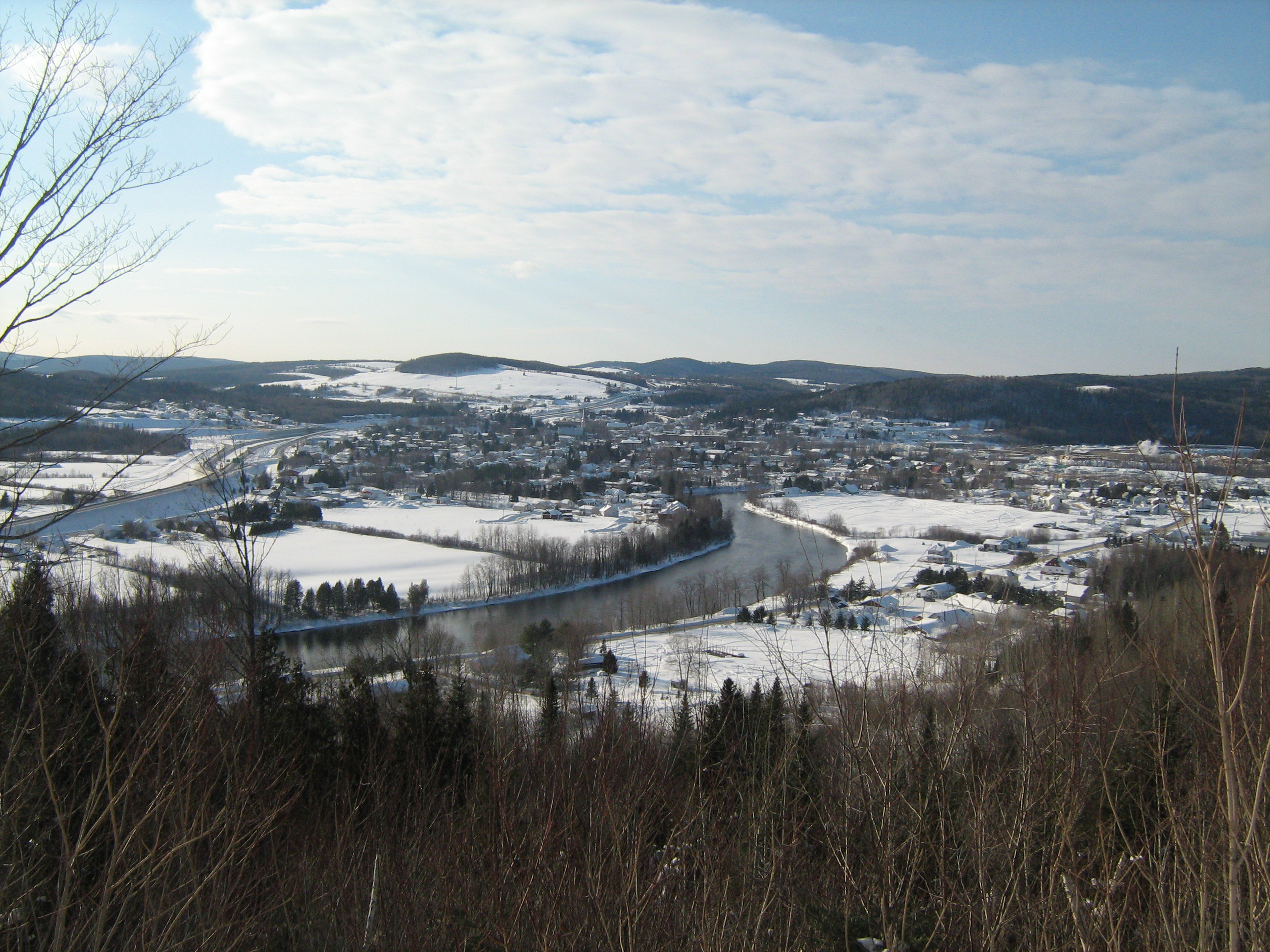 Picture of Degelis!